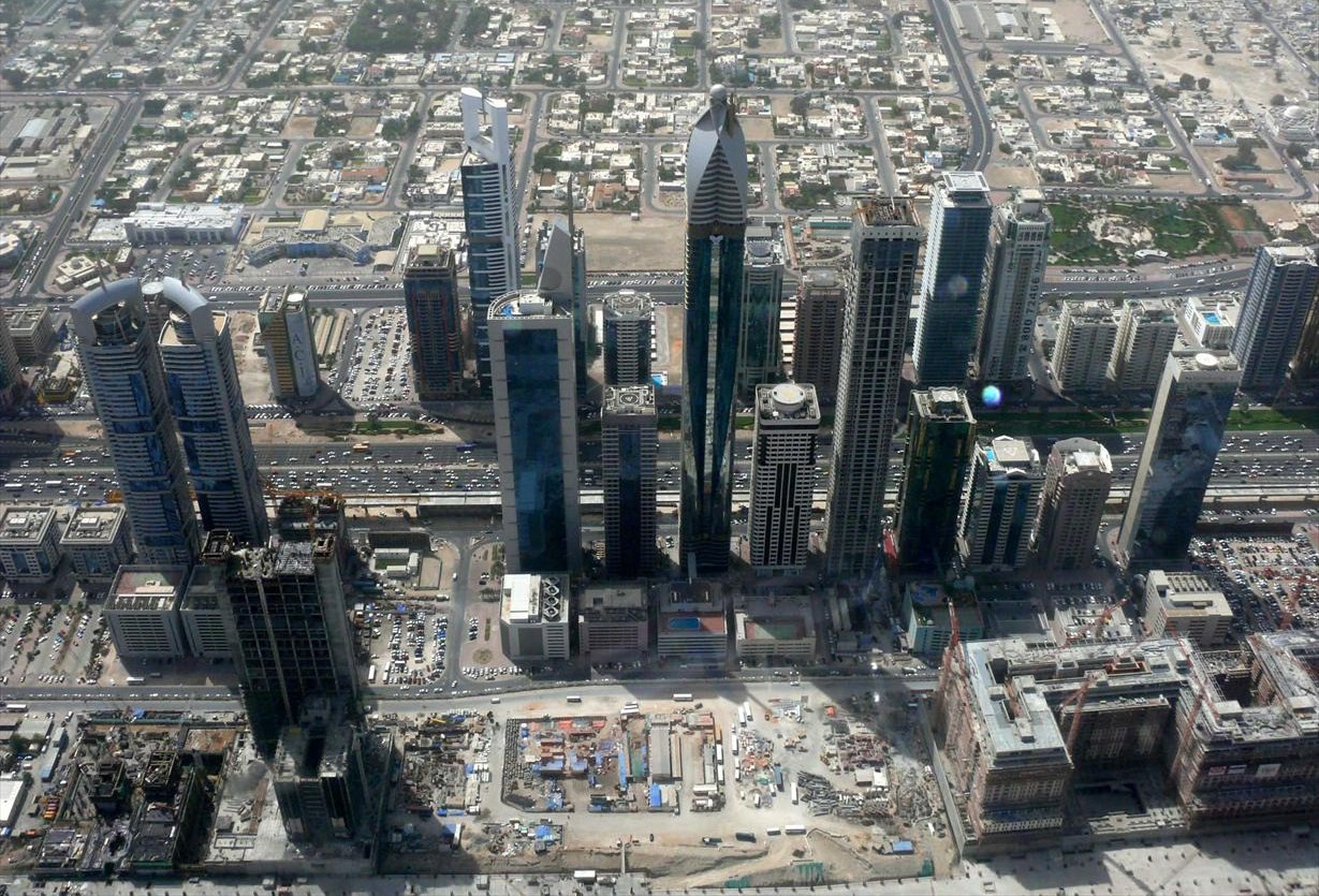 This is a photo of the skyline of Sheikh Zayed Road in Dubai, United Arab Emirates on 8 May 2008. The area at the bottom of the image is the Dubai International Financial Centre. This photo was taken from a helicopter ride courtesy of Nakheel.